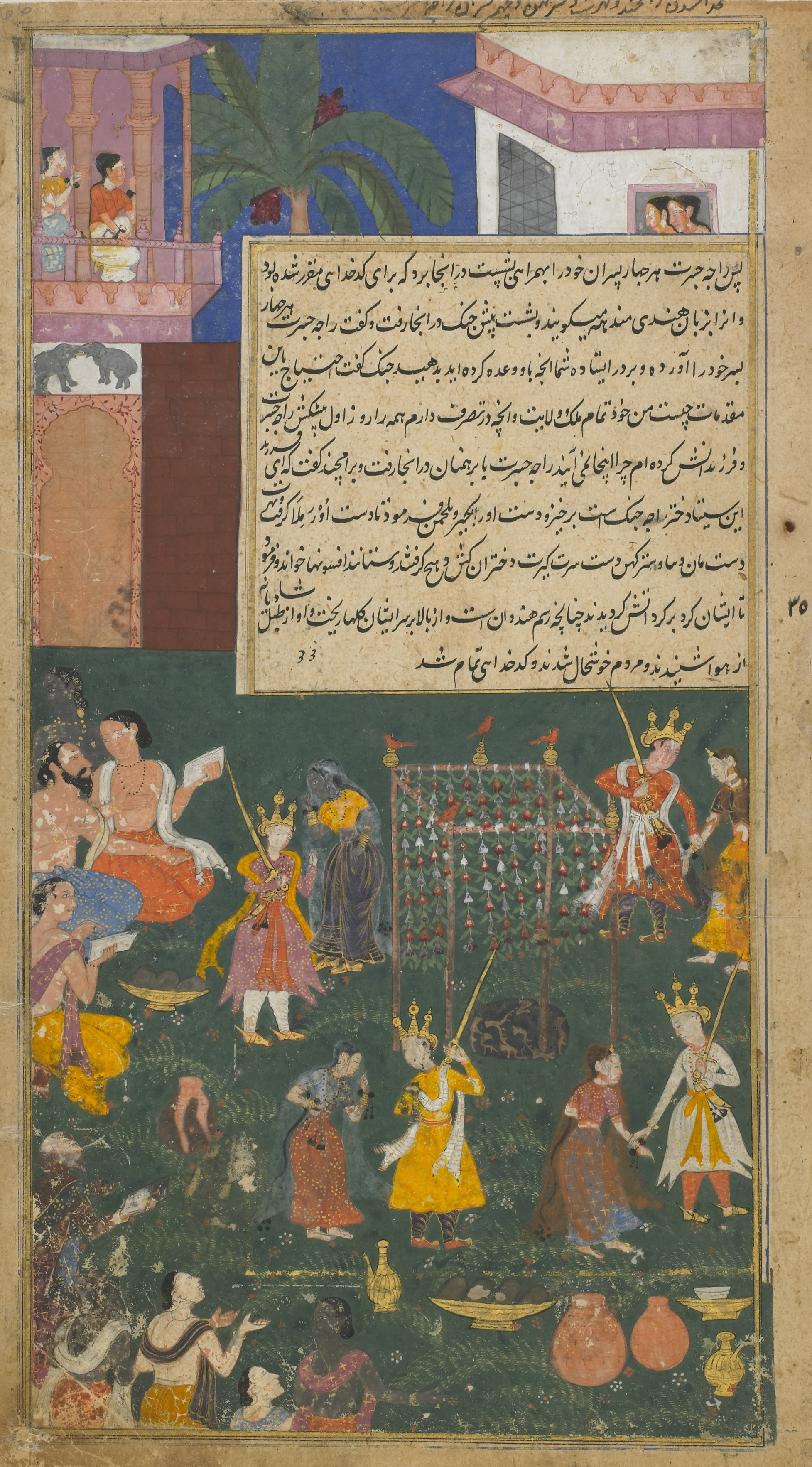 Folio from the Ramayana of Valmiki (The Freer Ramayana), Vol. 1, folio 66; recto: The four sons of Dasaratha circumbulate the altar during their marriage rites; verso: Dasaratha perceives ill omens on the journey back to Ayodhya 1597-1605 Kala Pahara , (Indian, Mughal dynasty Opaque watercolor, ink, and gold on paper H: 25.8 W: 13.8 cm Northern India Gift of Charles Lang Freer F1907.271.66